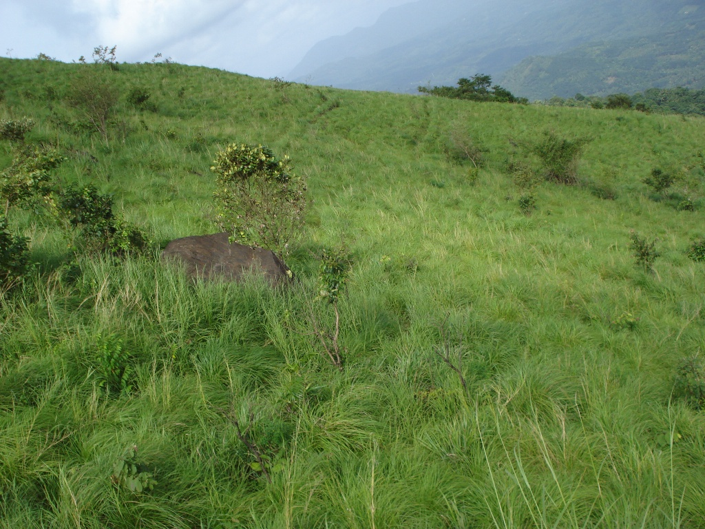 പാലക്കയംതട്ട്